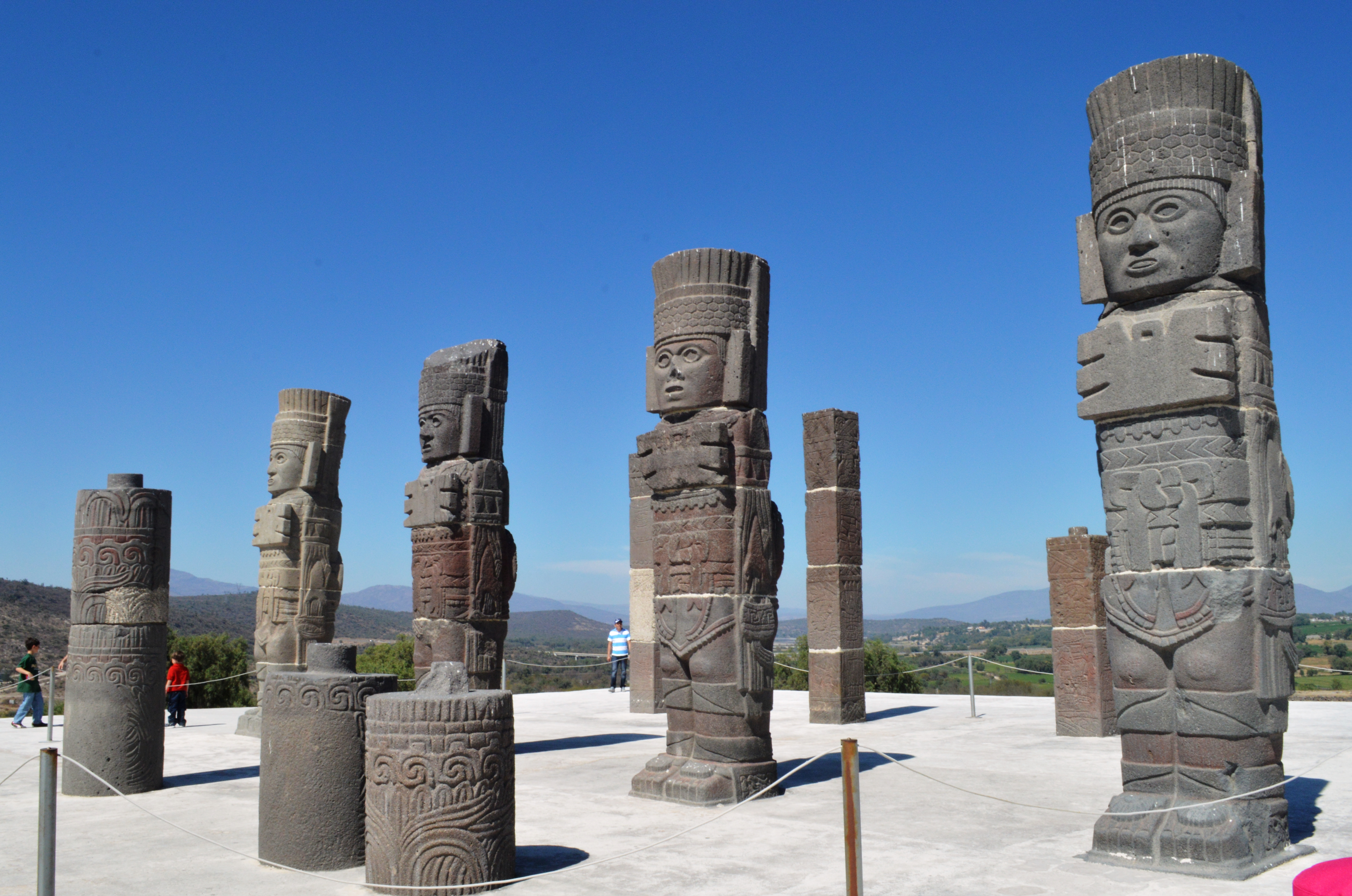 Atlantes of Pyramid B at Tula